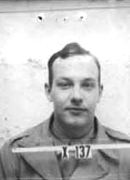 Alfred P. Wolf Los Alamos wartime security badge.